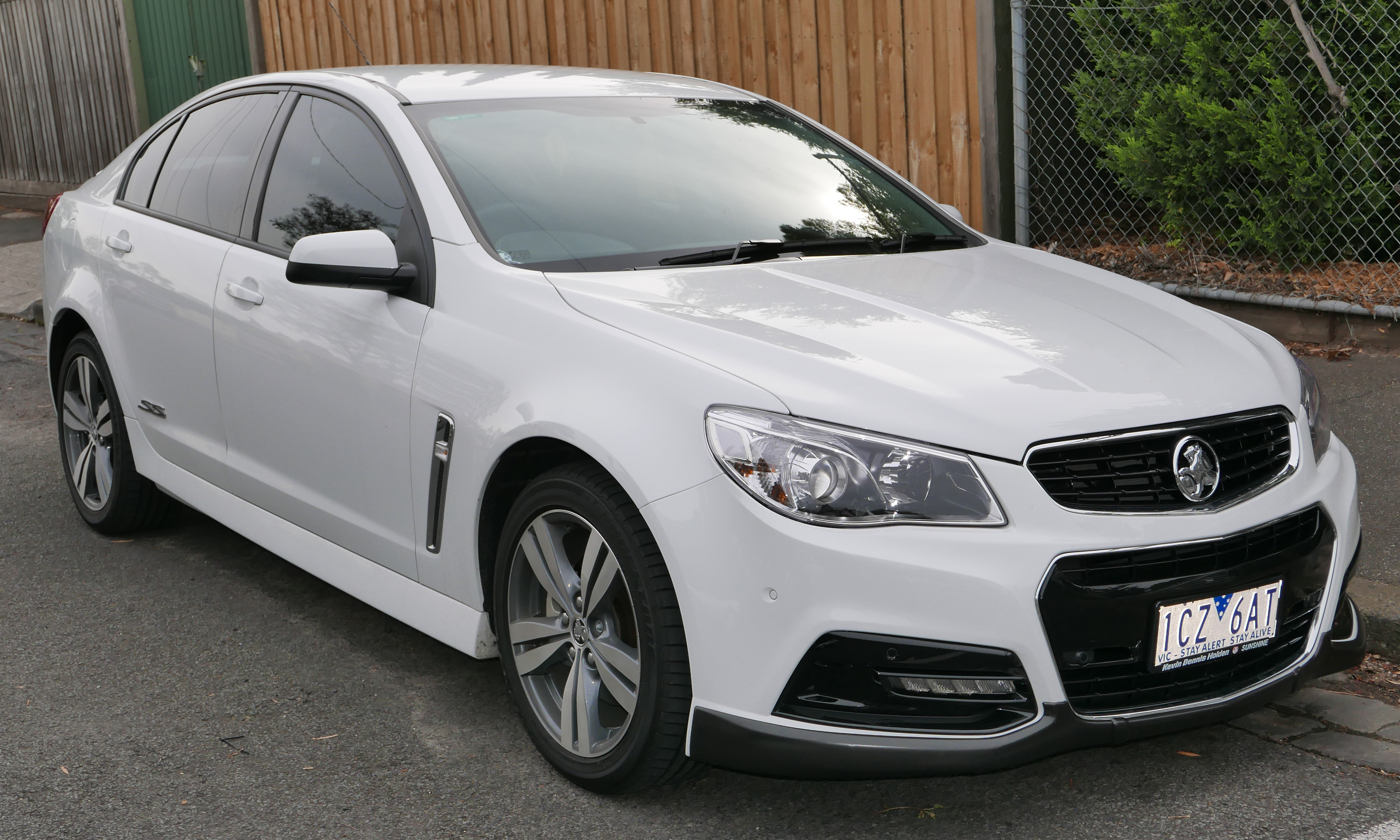 2014 Holden Commodore (VF MY14) SS sedan. Photographed in Flemington, Victoria, Australia. Vehicle registration enquiry resultsJurisdictionVictoriaRegistration1CZ6ATChassis code6G1FC5E20EL973552Engine codeCFP133320557Compliance date2014-03Year of manufacture2014